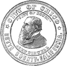 Seal of Chico, California. "The Chico City Clerk reported that the city seal is attached to the relevant section of the Chico Municipal Statutes at Large and dates from the 1890s, when Chico was first incorporated as a city. The seal features General John C. Bidwell, one of the first settlers and developers of the area around Chico. She also informed me that the seal does not exist in a colored form, but simply as a wafer, steel wire on a steel frame. It is used to impress blank mirrors of itself on either blank paper or on gold adhesive, and in fact she was kind enough to include a blind stamping of the seal on gold. Ron Lahav, 22 September 2004"